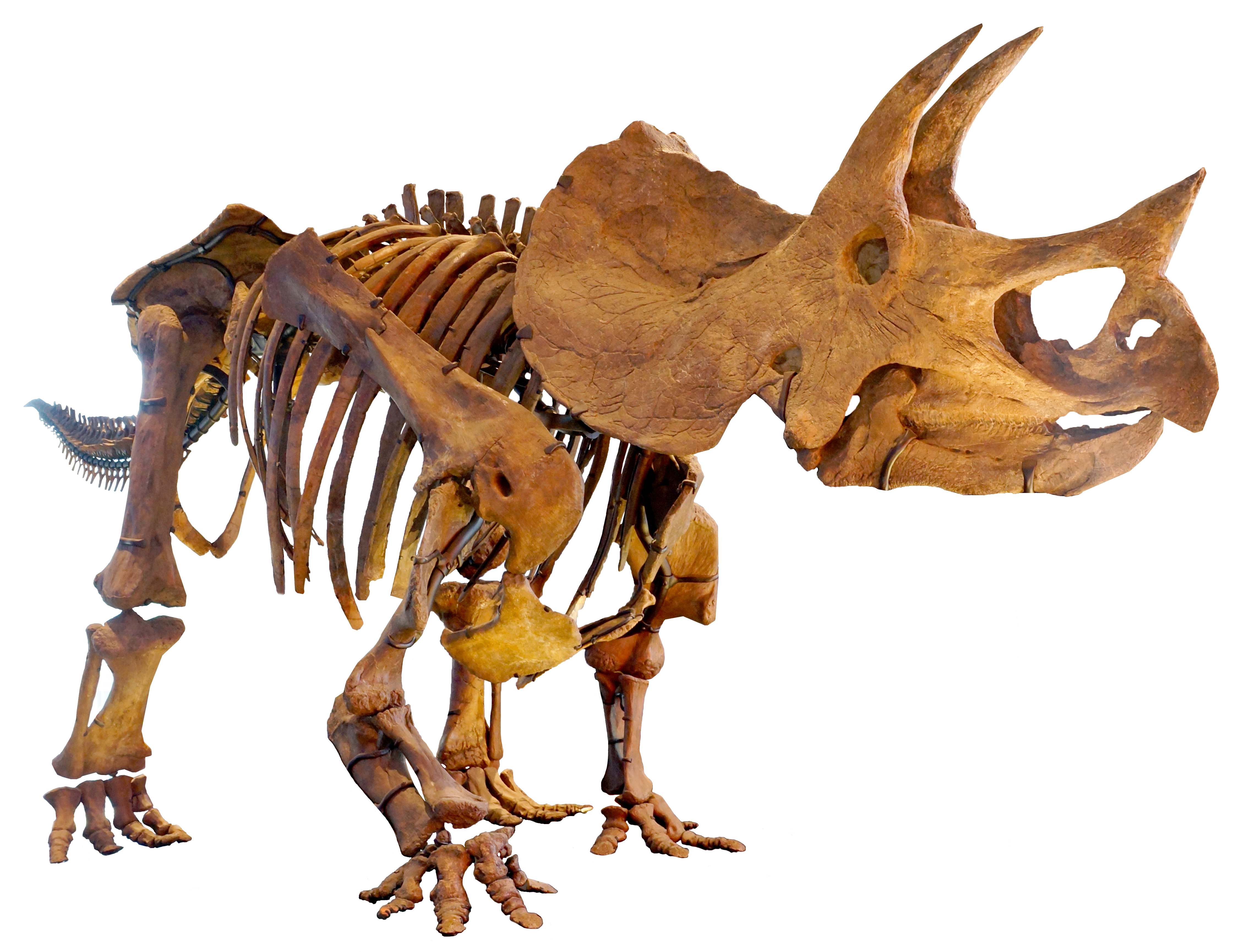 Triceratops mounted skeleton at Los Angeles Museum of Natural History, Los Angeles, United States of America